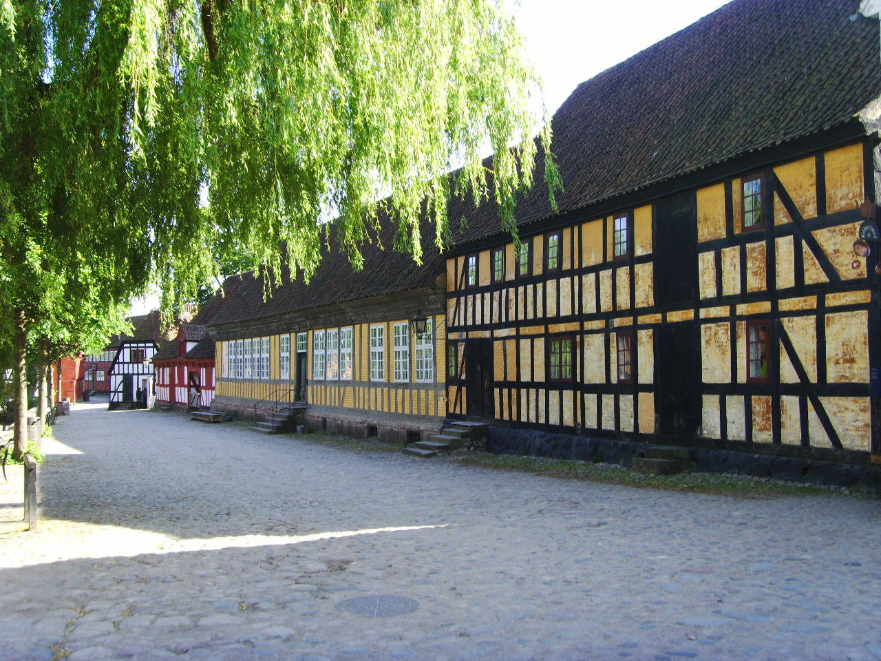 The Old Town, Århus, Denmark.